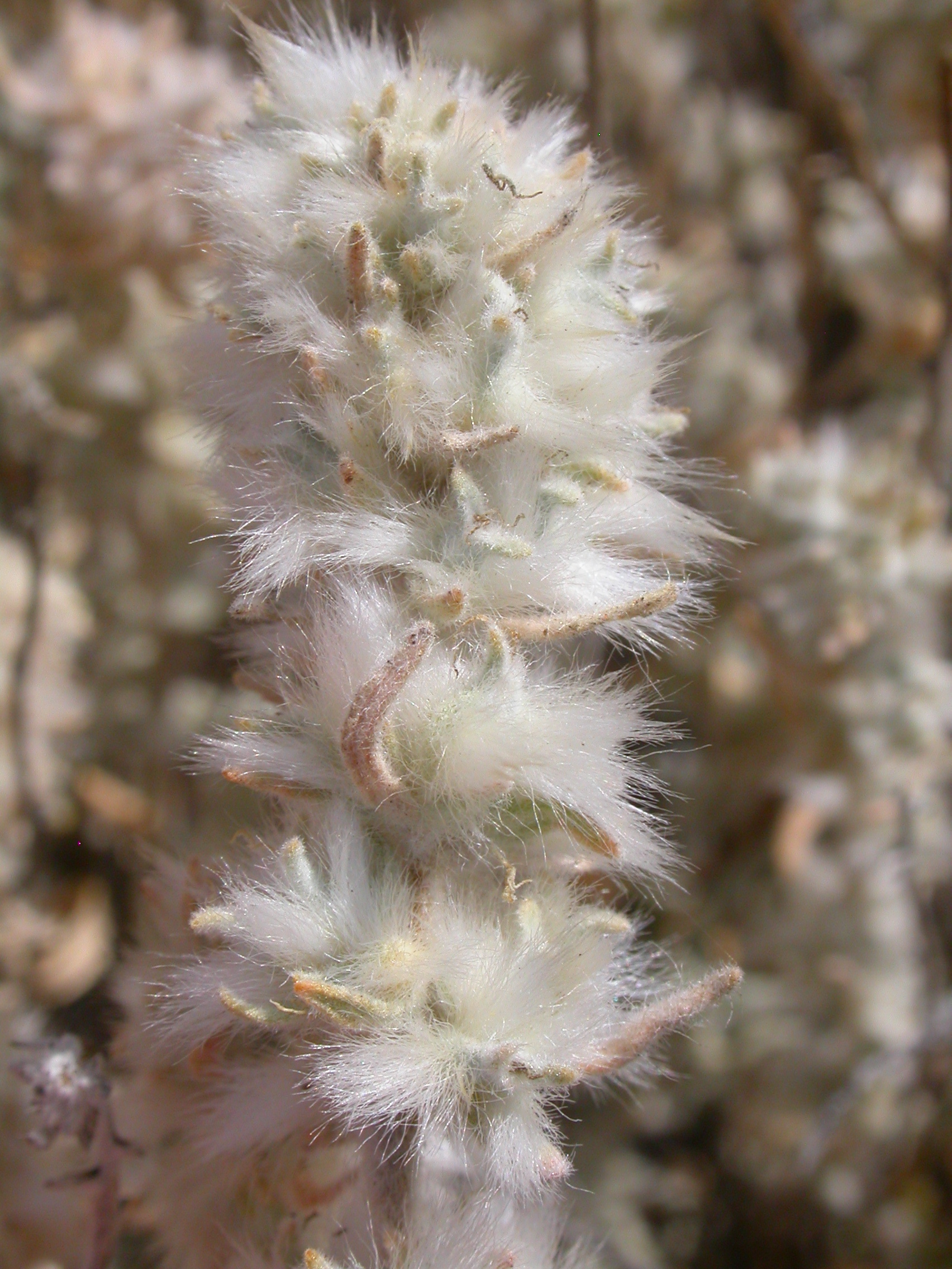 Although leafed out by early summer, Krascheninnikovia lanata continues to grow, flower, and fruit into late summer.